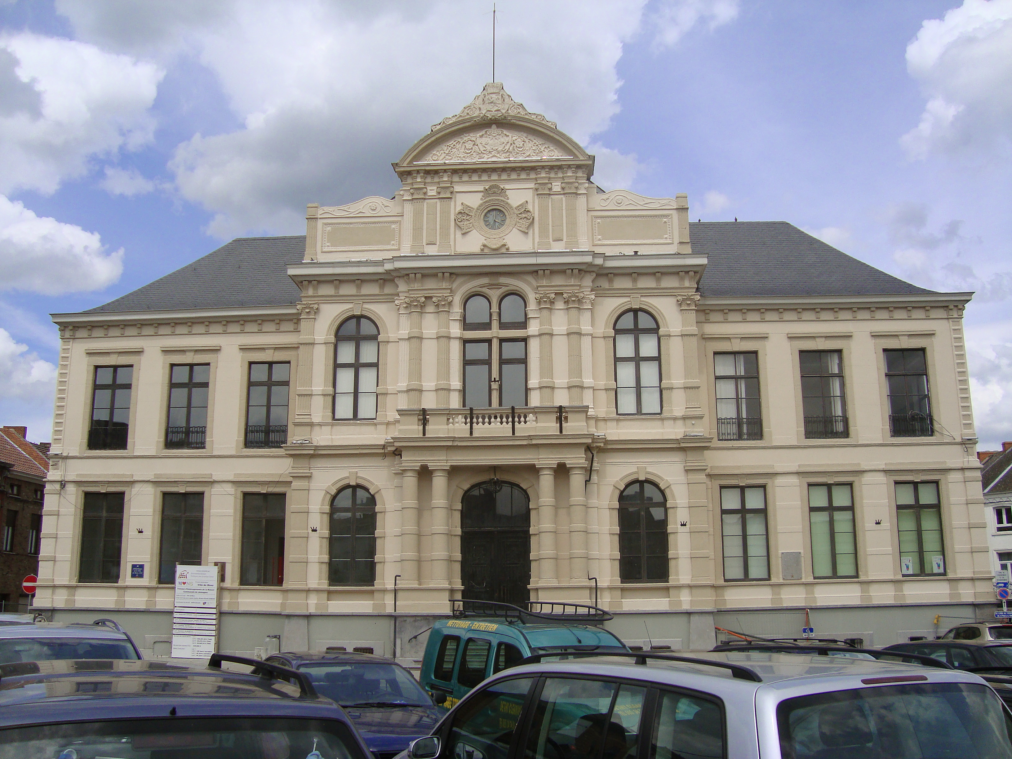 hometown of Jemappes